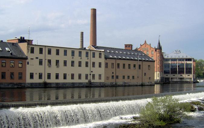 Norrköping, Sweden. Motala ström. Photo by Bronks, spring 2005.